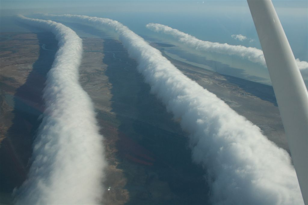 Photo of a Morning Glory cloud formation taken from a plane near Burketown (plane heading to Normanton) in QLD, Australia